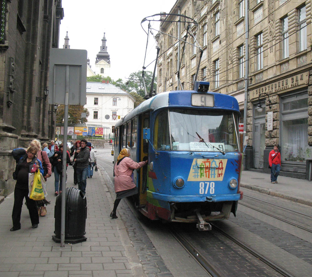 Tramvay on Rus'ka street in Lviv, Ukraine.